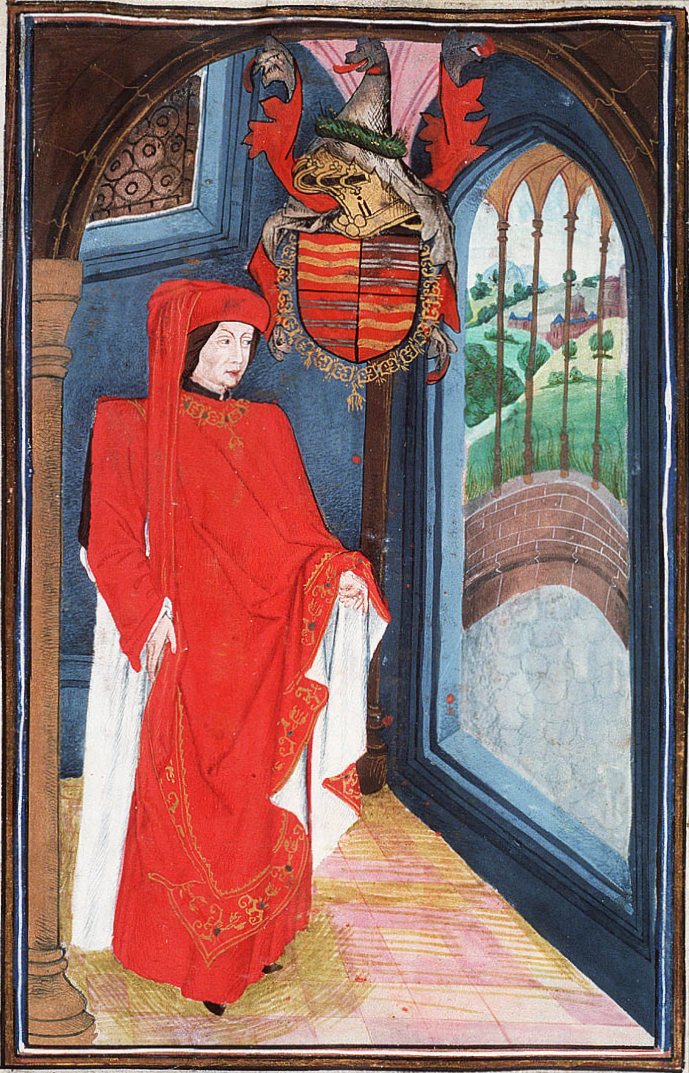 Statuts, Ordonnances et Armorial de l'Ordre de la Toison d'Or (Statutes, Ordonnances and armorial of the Order of the Golden Fleece) Place of origin, date: Southern Netherlands; 1473. Added sections: Southern Netherlands; 1478 or shortly after and 1491 or shortly after Material: Vellum, ff. 86, 249x187 (167x106) mm, 23 lines, littera cursiva (lettre bourguignonne). French. Binding: 18th-century brown leather Decoration: 1 full-page miniature (170x115 mm) with border decoration; 92 miniatures (185/155x120/100 mm); 1 historiated initial (80x90 mm) with border decoration; decorated initials with border decoration (ff., Added section: miniatures ; 4 drawings for miniatures (not finished) Provenance: Presented in 1473 by Gilles Gobet, King of Arms of the Order of the Golden Fleece, to Charles the Bold, Duke of Burgundy and the other Knights during the Chapter of the Order held at Valenciennes; Treasure of the Golden Fleece, Brussls; taken away by the Treasurer C.-F. Humyn (d. 1735) or his daughter C.Ch. de Corte; by legacy to her daughter M.-L. de Corte, wife of Ph.-E. de Poederlé; purchased in 1781 at the Poederlé sale by G.-J- Gérard of Brussels; acquired in 1832 as part of the Gérard collection (no. A 27)